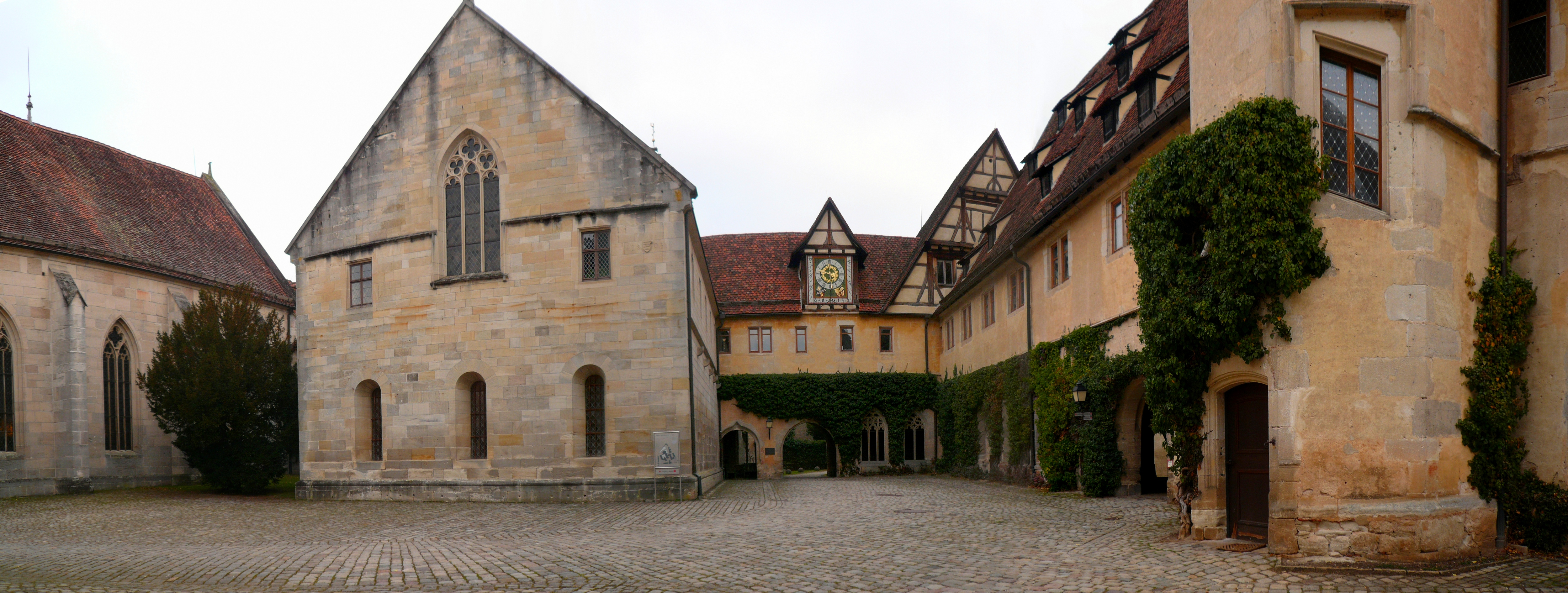 Monastery of Bebenhausen